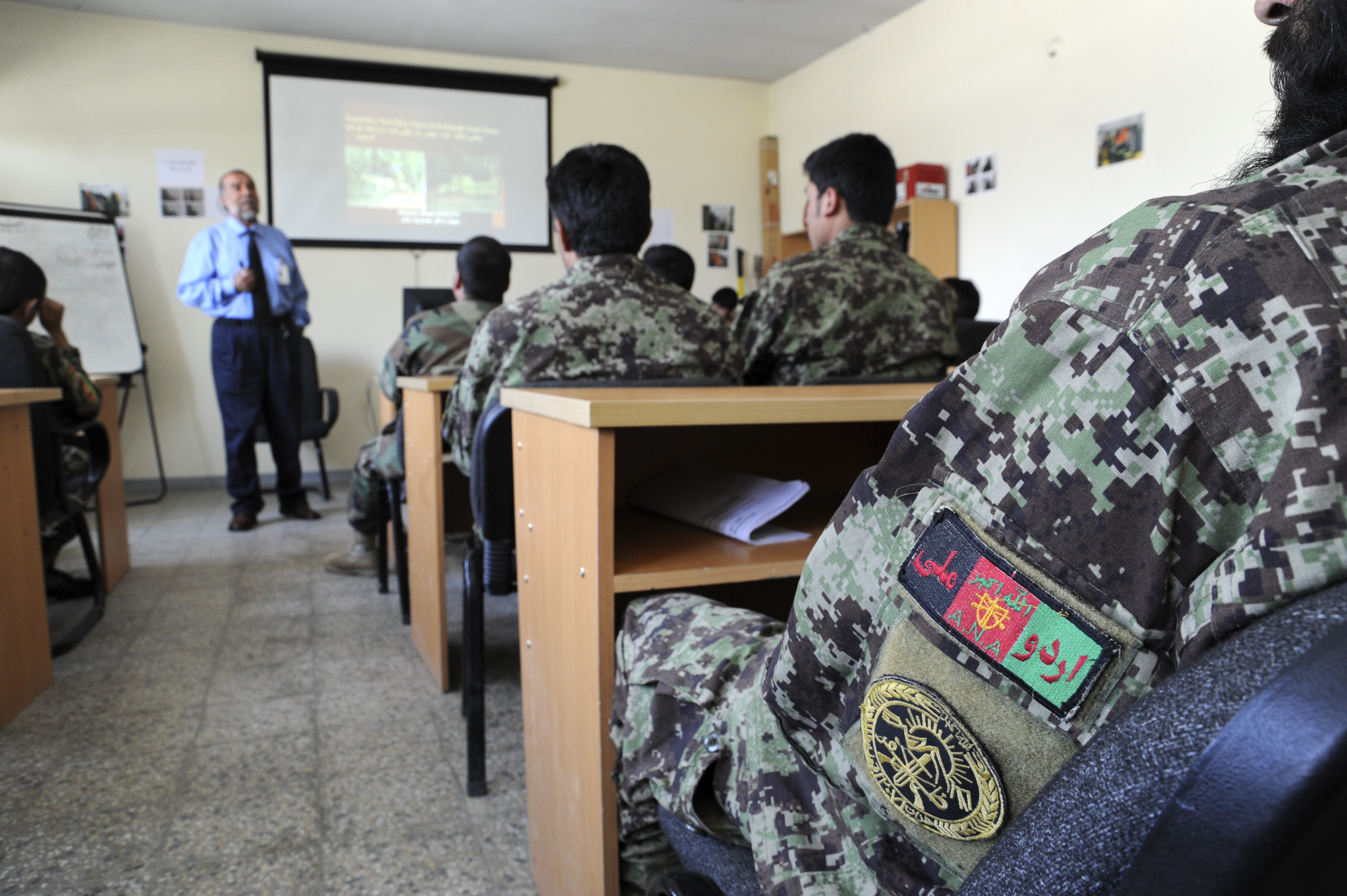 Afghan Air Force firefighting students at Pohantoon-e-Hawayee, the Afghan Air Force’s “Air University,” listen to their instructor as he teaches them about fire safety August 2, 2011. PeH is located on the AAF compound in Kabul and currently has 593 students enrolled from all over Afghanistan in various classes and is the primary in-processing point for all training conducted in the AAF. (U.S. Air Force photo by Staff Sgt. Matthew Smith)